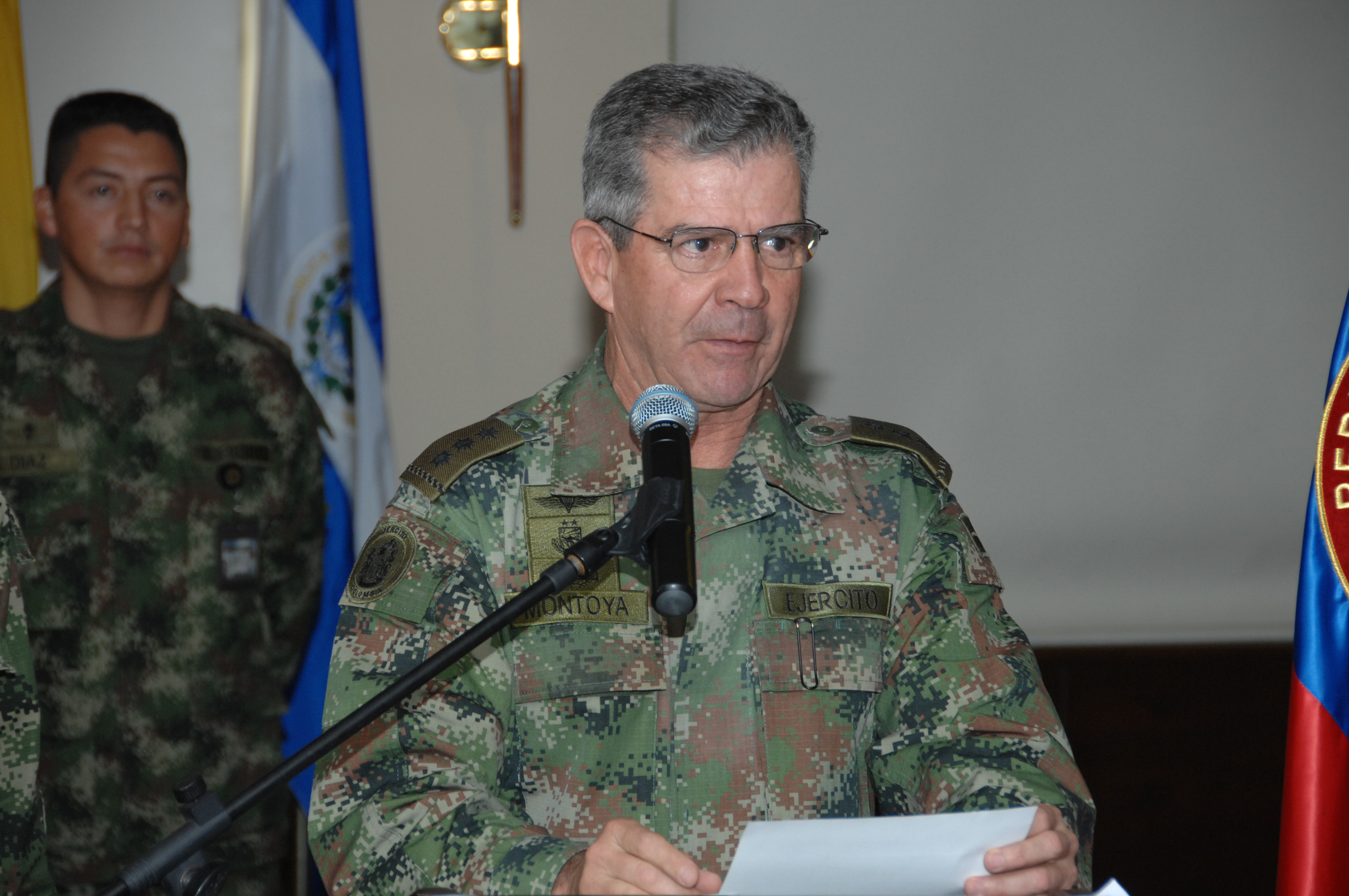 Colombian army Gen. Mario Montoya Uribe, the commander of the Colombian National Army, gives a speech during the opening ceremony of the Senior Enlisted Leaders Conference (SELC) in Bogota, Colombia, July 22, 2008. The SELC helps to build and maintain personal relationships that foster cooperation between the United States and the 32 countries of Latin America and the Caribbean. (U.S. Army photo by Jose Saez/Released)